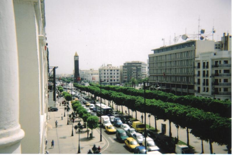 Avenue Habib Bourguiba, as seen from Carlton Hotel, taken during his vacation to Tunisia in 2004